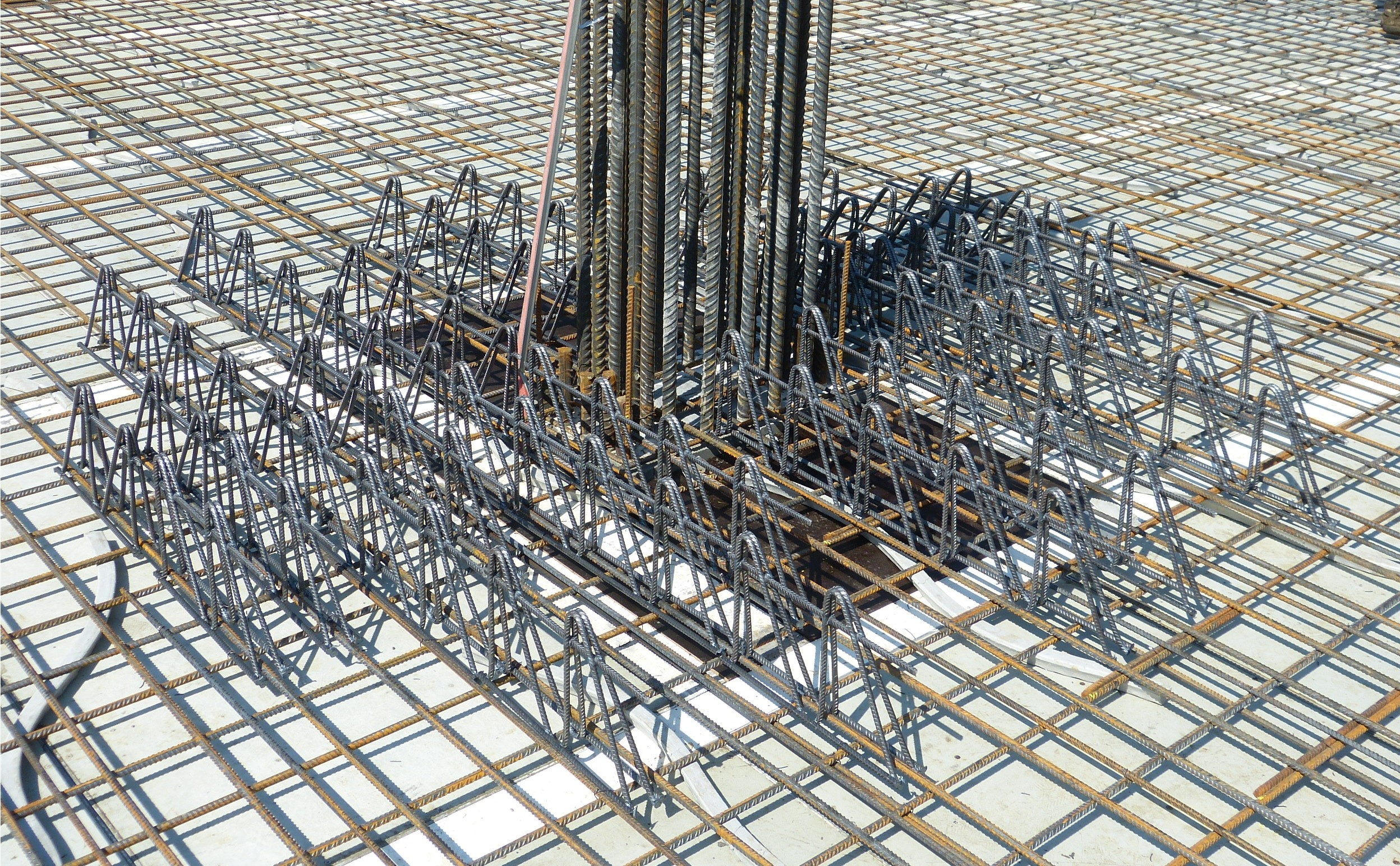 When reinforced concrete slabs are supported by columns only the shear capacity can be increased by the use of punching shear reinforcement. The picture shows lattice girders as punching shear reinforcement for a reinforced concrete slab. The lattice girder is placed on the lowest layer of bending reinforcement.